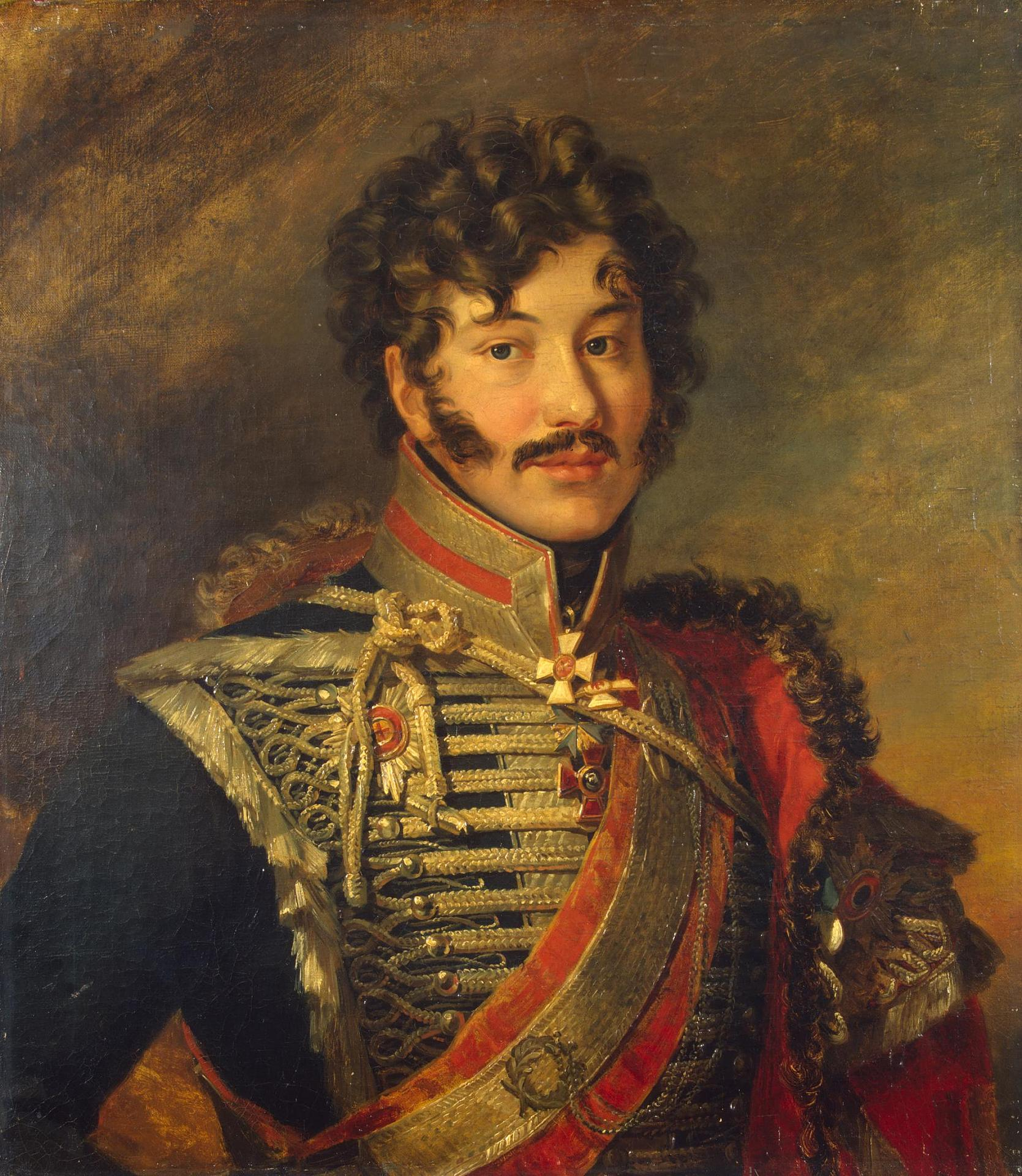 Russian general-l. Lanskoy, Sergey Nicolaevich (С. Н. Ланской)(1774 – 1814)